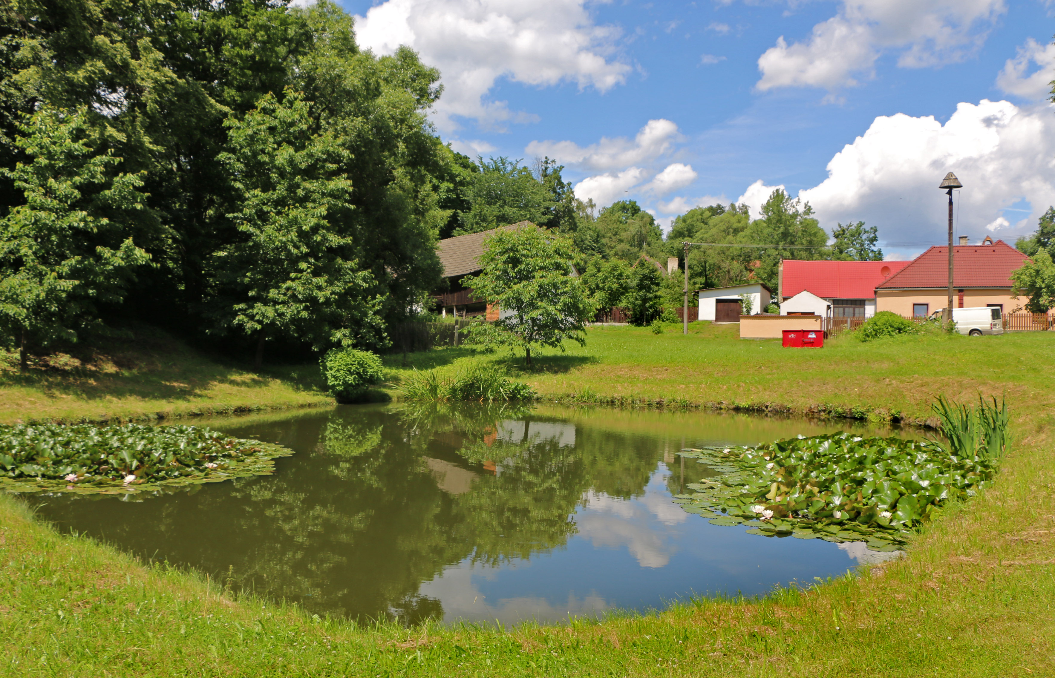 Common pond in Stajiště, part of Pavlov, Czech Republic.